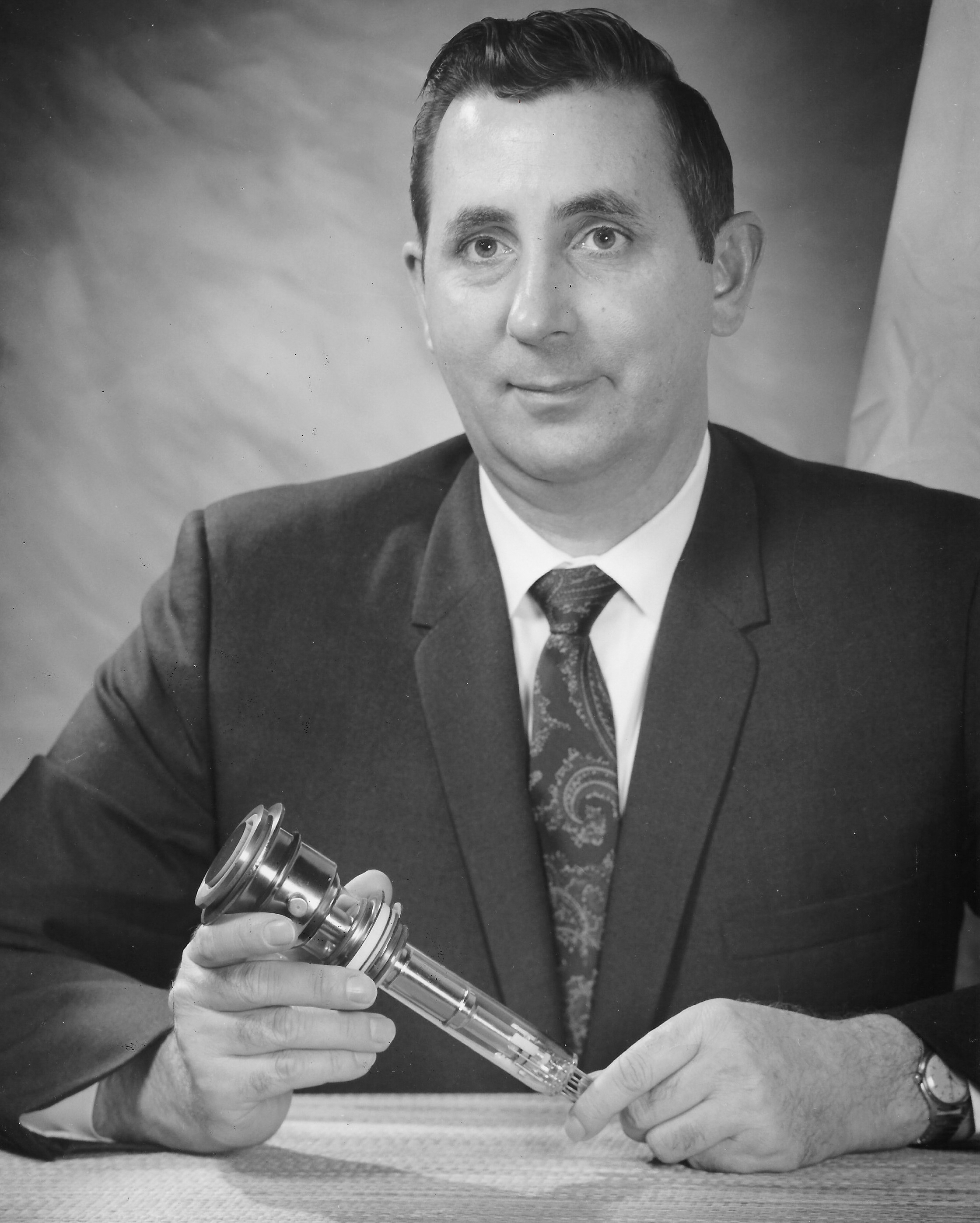 Gerhard W Goetze holding the Secondary Electron Conduction tube (SEC) prototype used on the Apollo Mission cameras. Photo by Steiner Studio, Elmira, 1967